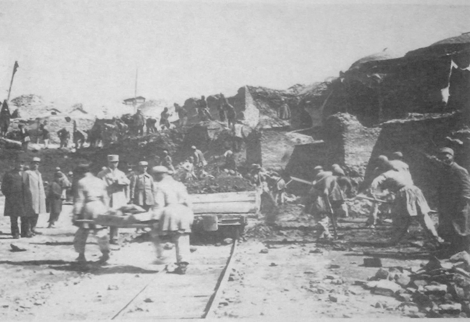 construction of Ferdowsi St. in Tabriz, 1929.